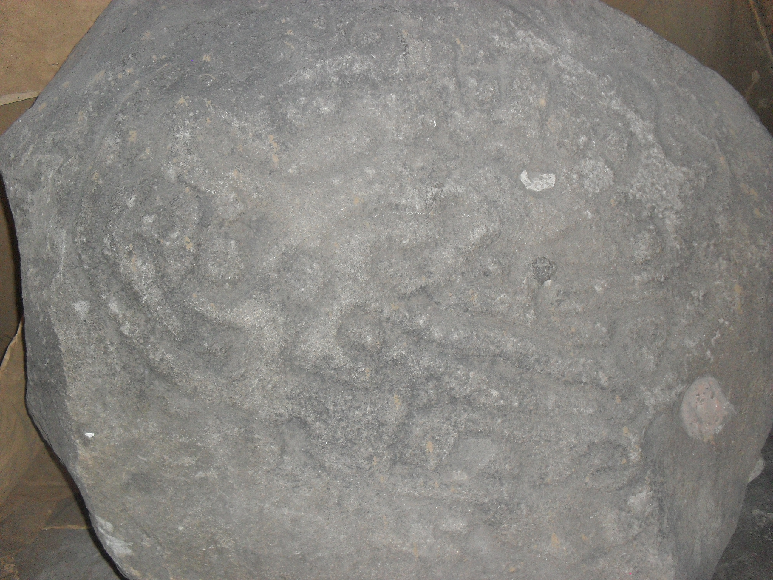 freestone